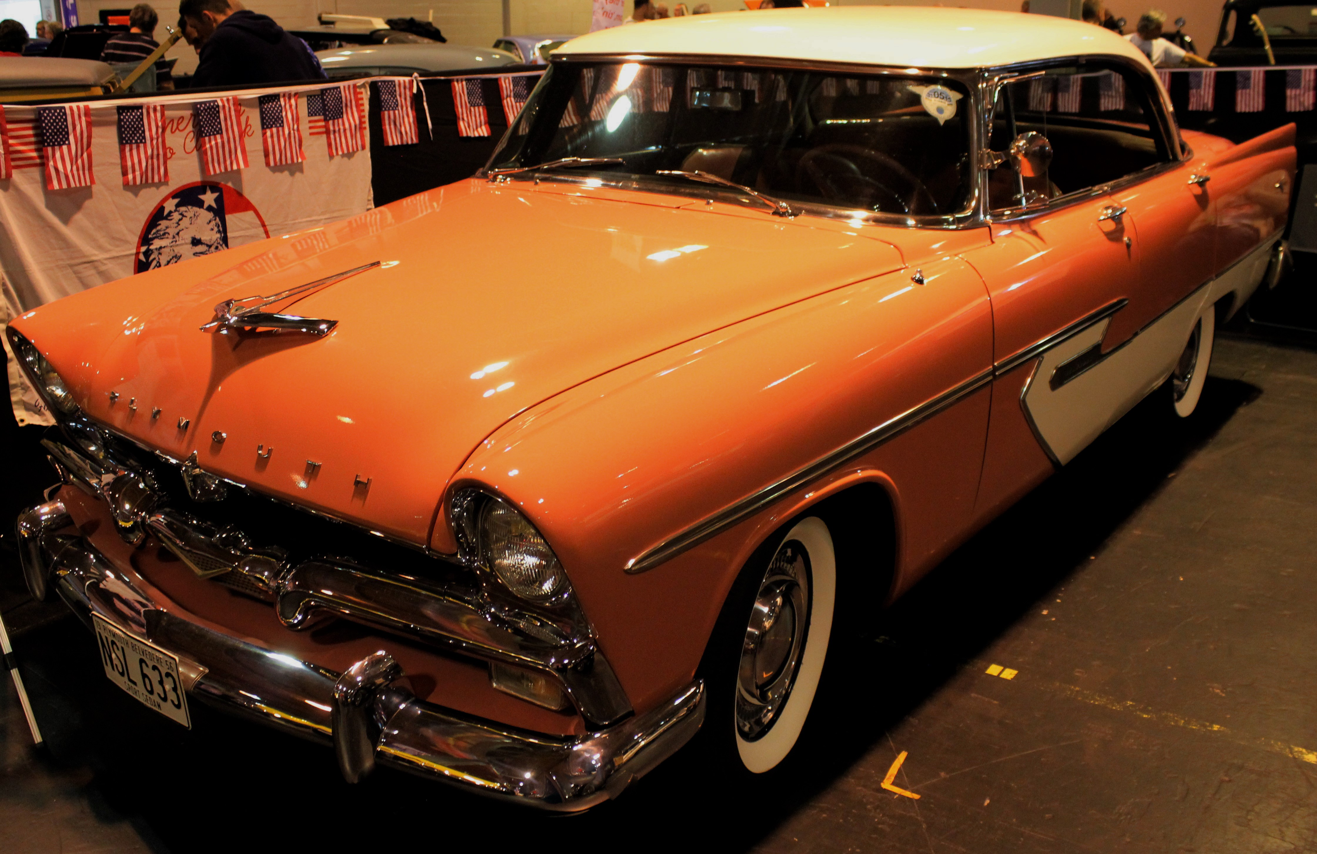 NEC Classic car show 2015